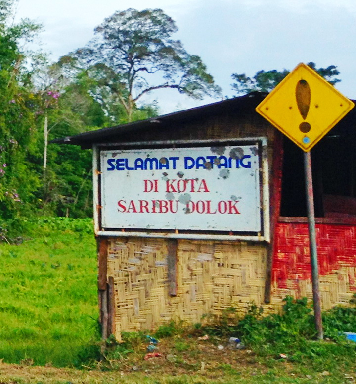 Welcome gate to Saribudolok, Silimakuta, Simalungun